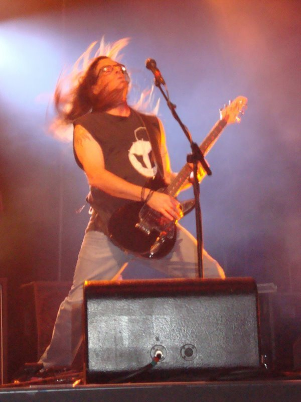 Kevin "Noodles" Wasserman performing live with The Offspring at the Mucuripe Club in Fortaleza, Ceará, Brazil, in november 2008.